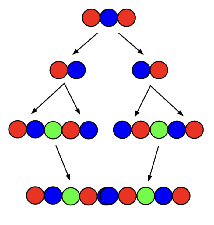 A diagram of a process that creates a superpermutation of 3 symbols from a superpermutation of 2 symbols. First, the superpermutation is separated into its individual permutations. Then, each permutation is placed next to a copy of itself with a third new symbol added in between. Lastly, each structure is placed next to each other with adjacent symbols merged if they are the same. This process is infinitely repeatable. When resulting in superpermutations five or less, the superpermutation is the smallest possible.